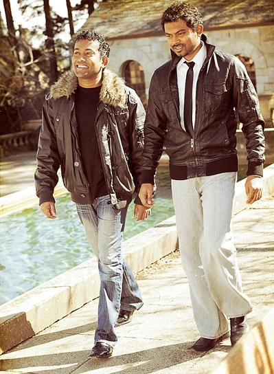 Photograph of Bathiya Jayakody and Santhush Weeraman BnS (භාතිය සහ සන්තුෂ්)